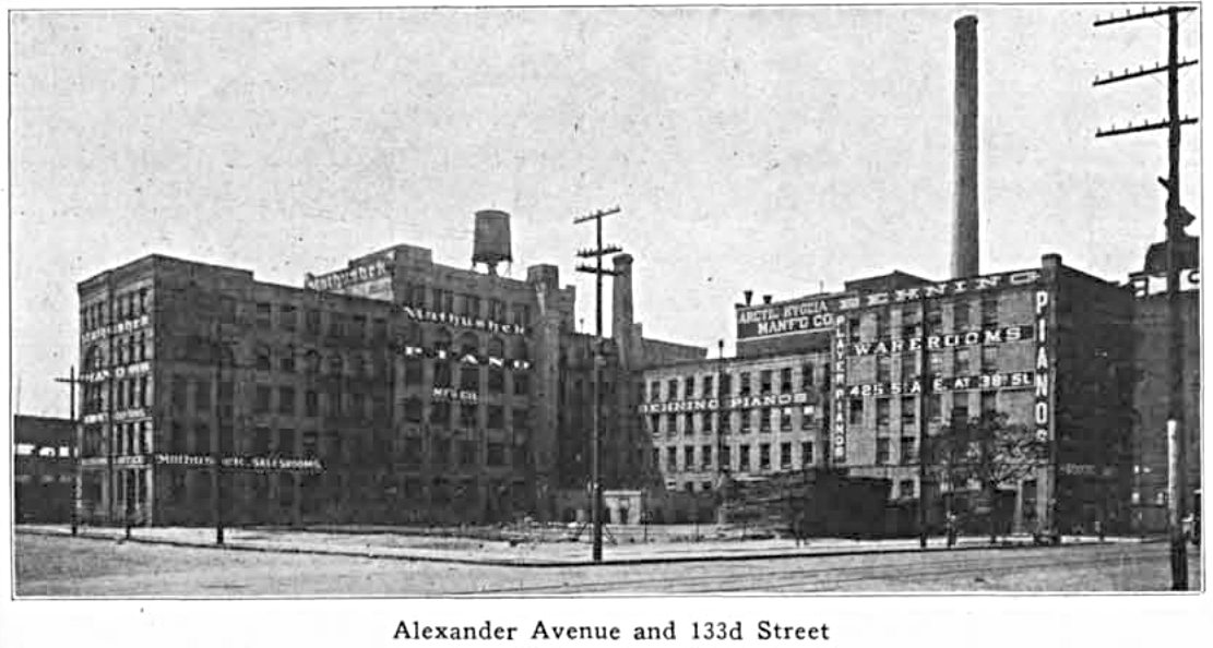 Photo of Mathushek Piano Mfg. Co and Behning Piano factories at Alexander avenue and 133rd street in the Bronx ca. 1918